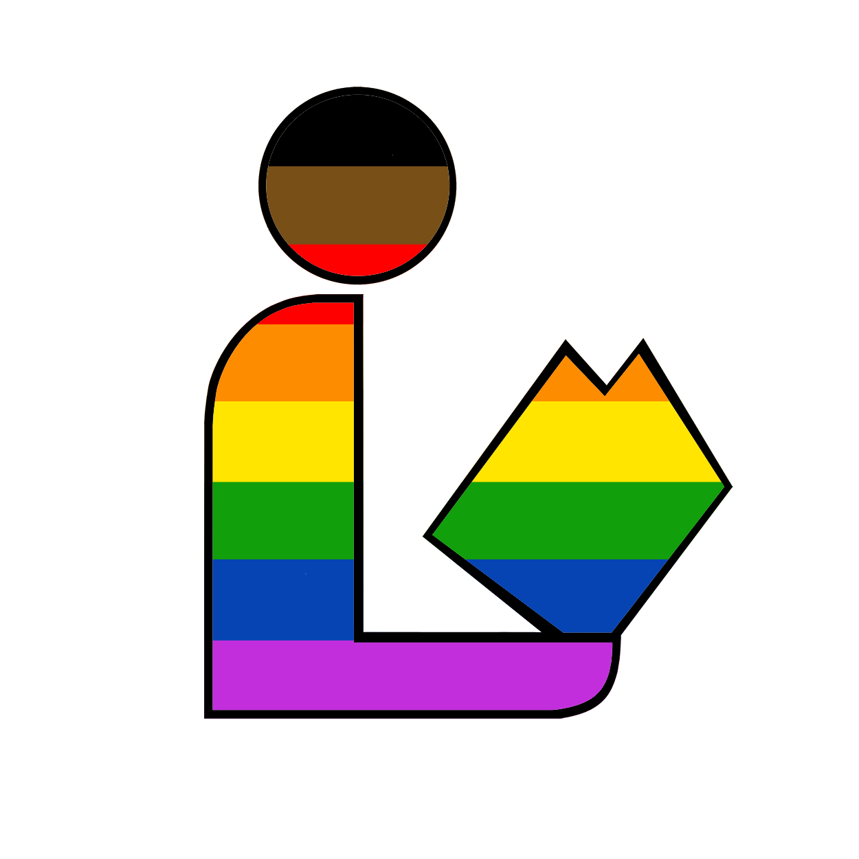 This design combines the Philadelphia gay pride flag with the public library logo.